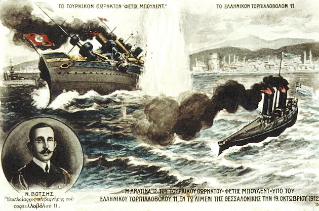 Torpedoing of the Ottoman battleship Feth-i-Bulend in Thessaloniki during the 1st Balkan War